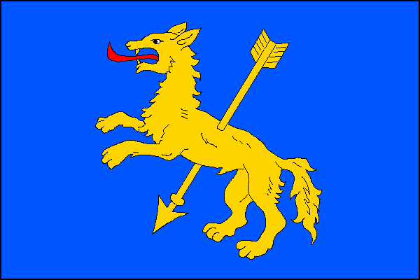 Municipal cflag of Rýmařov town, Bruntál District, Czech Republic.